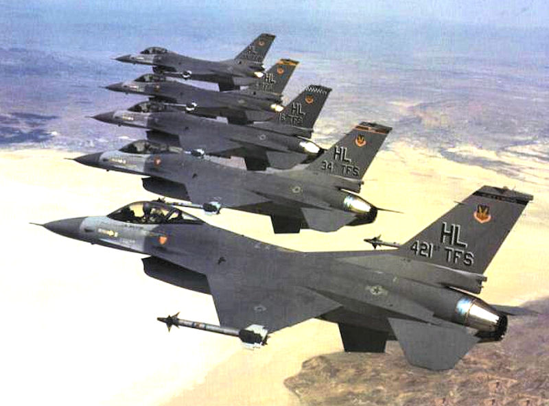 388th Fighter Wing - F-16 Fighting Falcons, about 1985